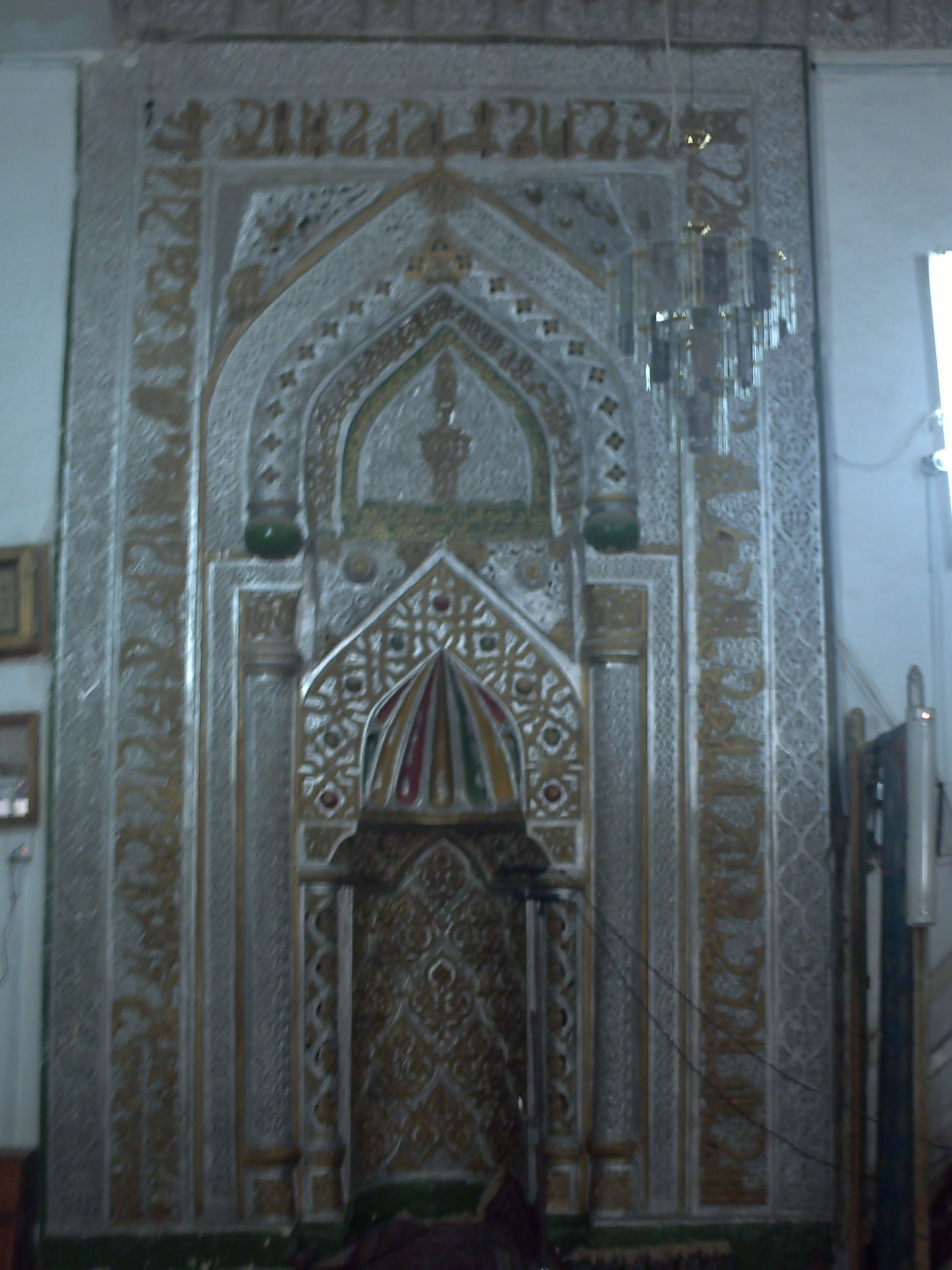 Qibla mihrab in the Hurrat-ul-Malaika Mosque — in Jibla, Yemen.